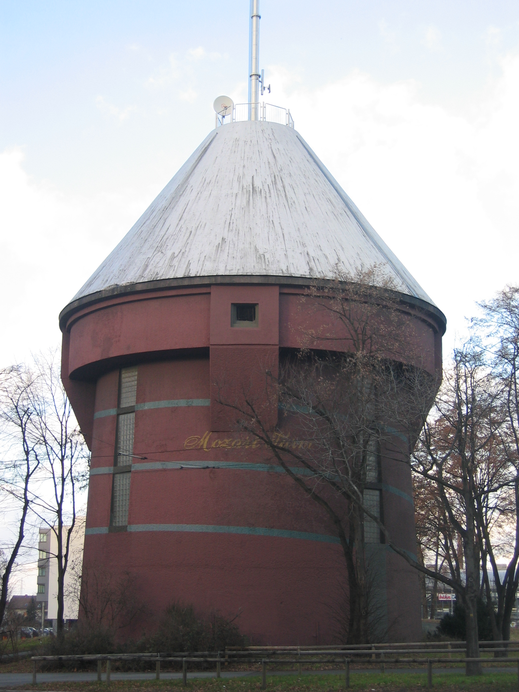 Mozart Tower in Darmstadt, Germany